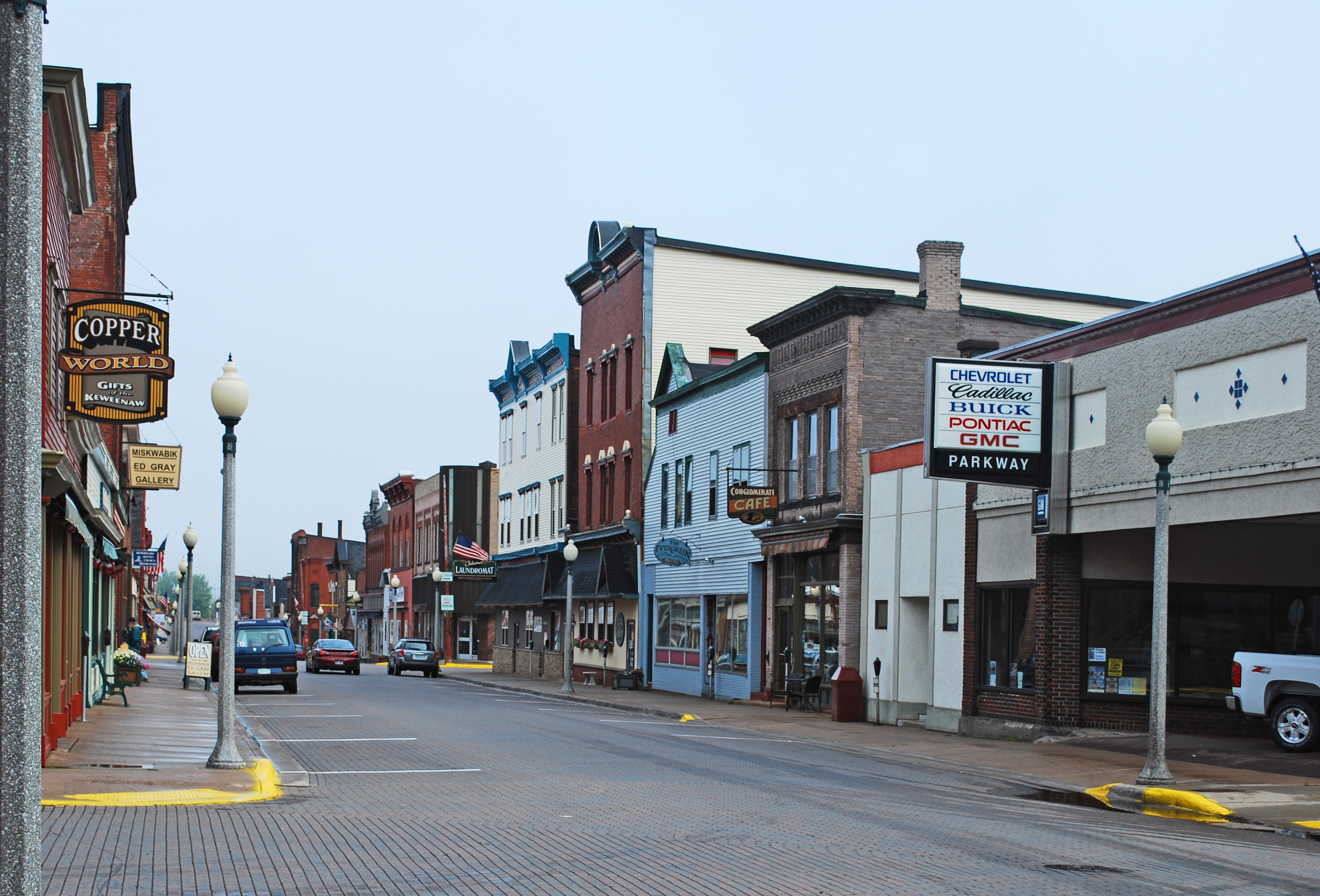 Historic buildings on 5th Street, in the Calumet Downtown Historic District —In Calumet, Upper Peninsula of Michigan.